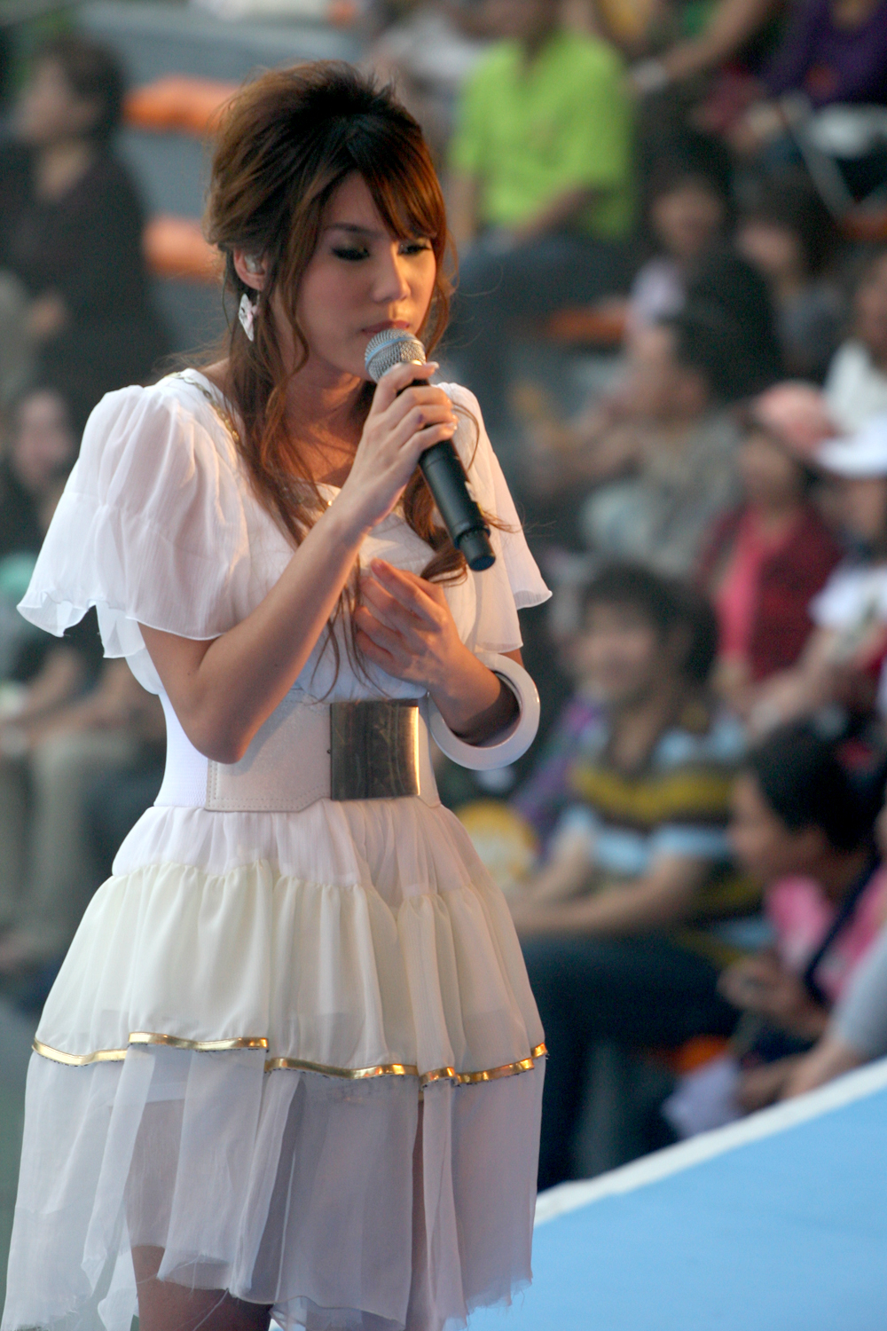 Prink AF5